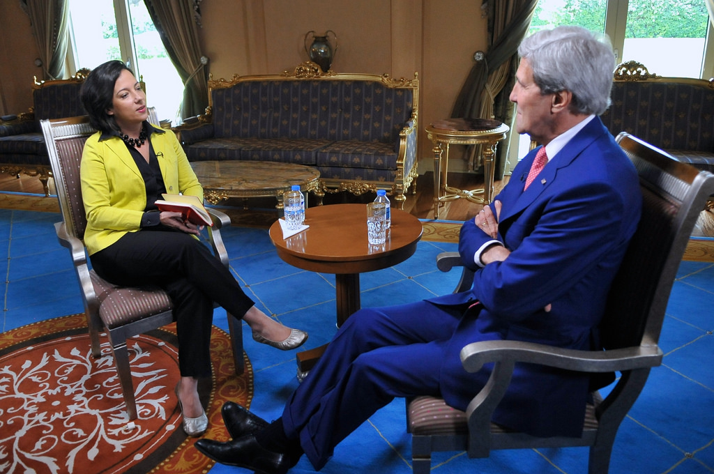 U.S. Secretary of State John Kerry chats with Kim Ghattas of the BBC before the two began the first in a series of round-robin network television interviews on June 24, 2014, about his two-day visit to Iraq. [State Department photo/ Public Domain]